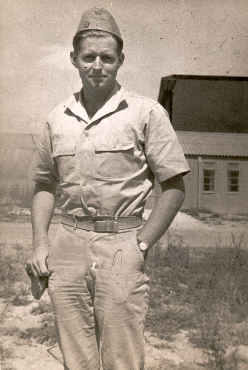 This is the very last known photograph of Joseph P. Kennedy Jr., taken before boarding a PB4Y-1 Liberator. This image was scanned from the original photograph that belonged to and was likely taken by my grandfather Earl Olsen, who watched as Kennedy boarded.